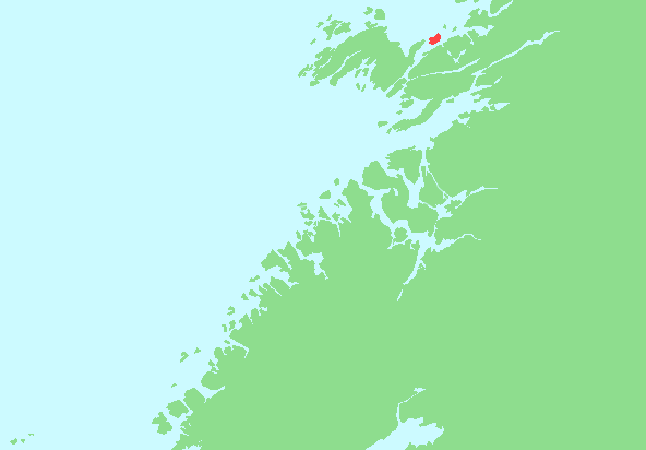 Locator map of Gjerdinga, Nord-Trøndelag, Norway